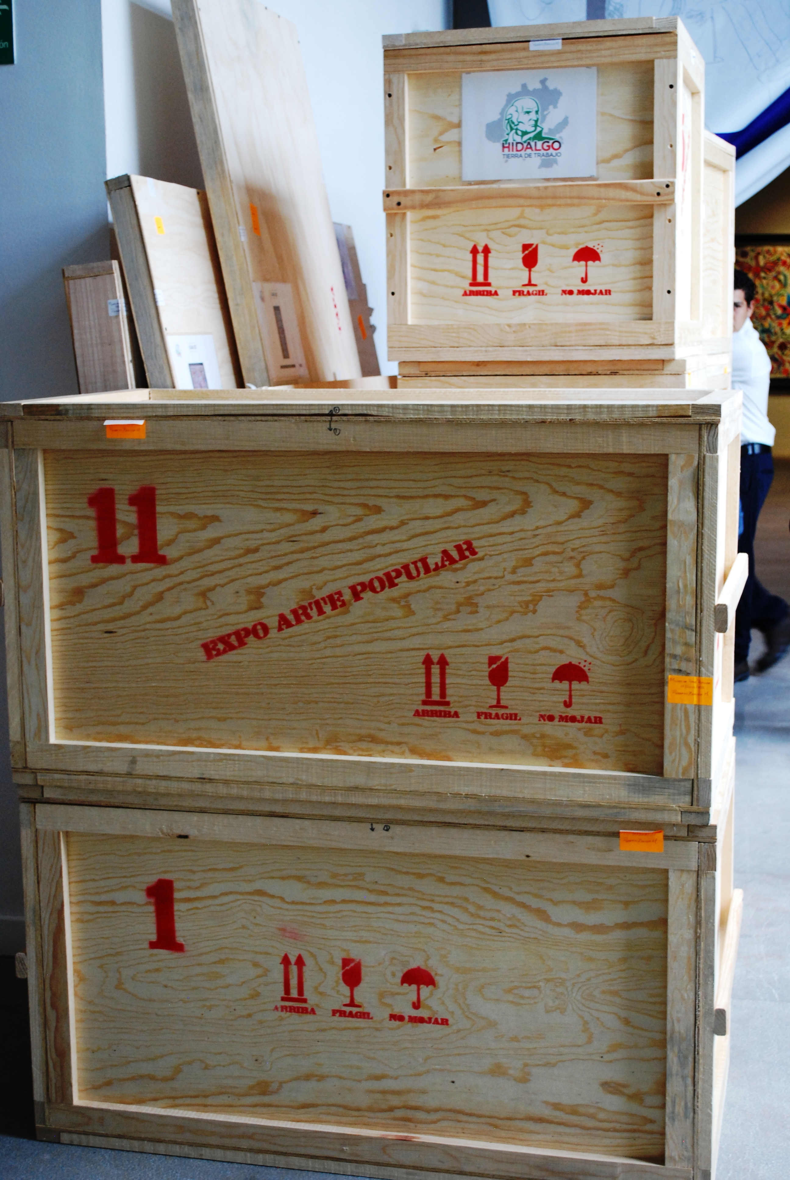 Crates with items for the Hidalgo crafts expo at the Museo de Arte Popular in Mexico City